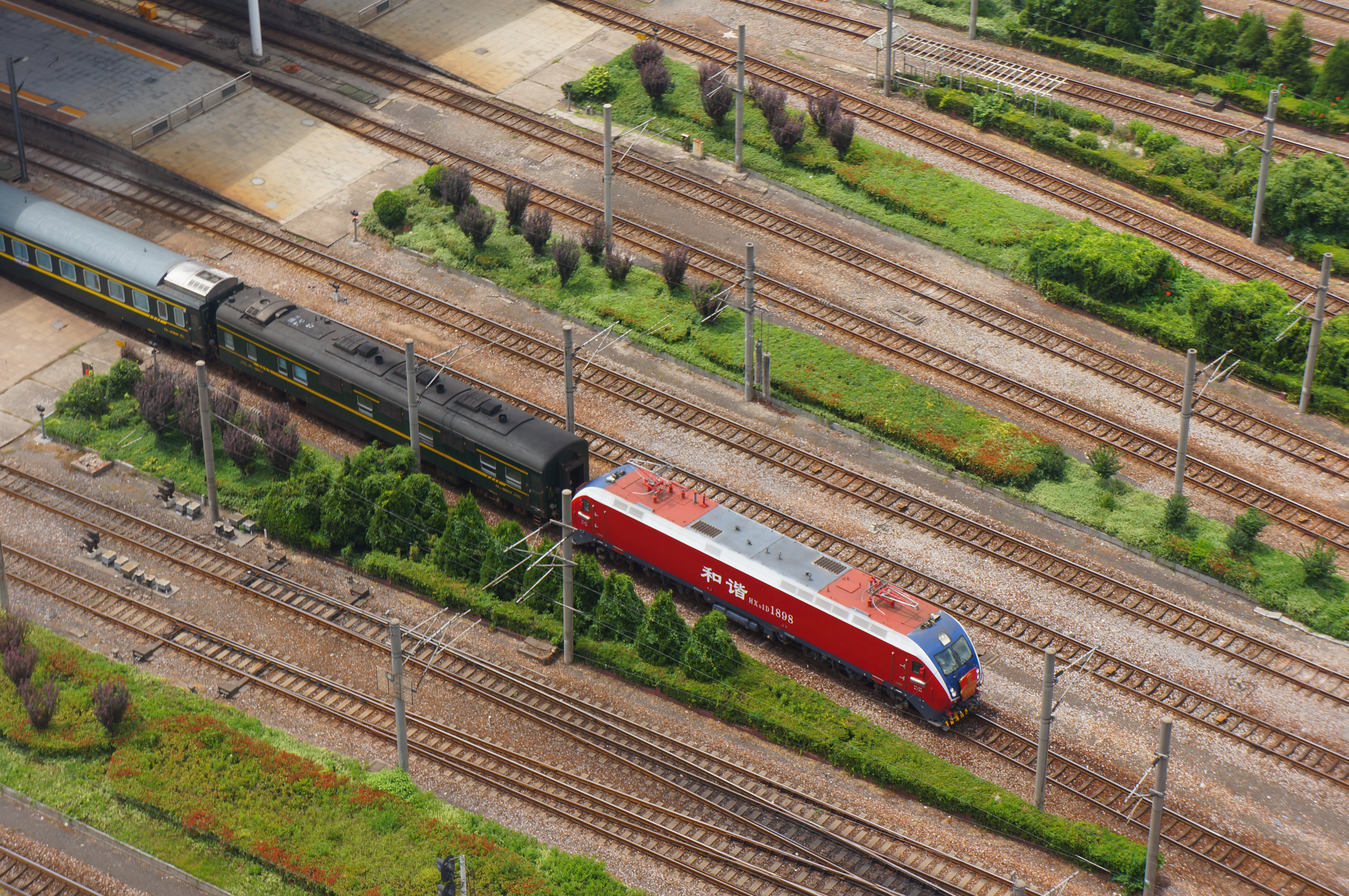 201806 HXD1D-1898 hauls K1556 departs from Shanghai Station